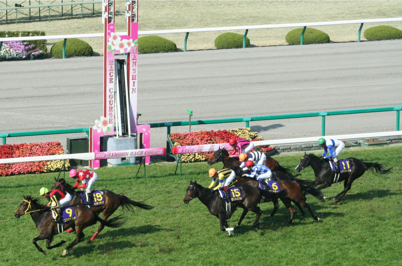 The 69th Oka Sho (Hanshin Racecourse)